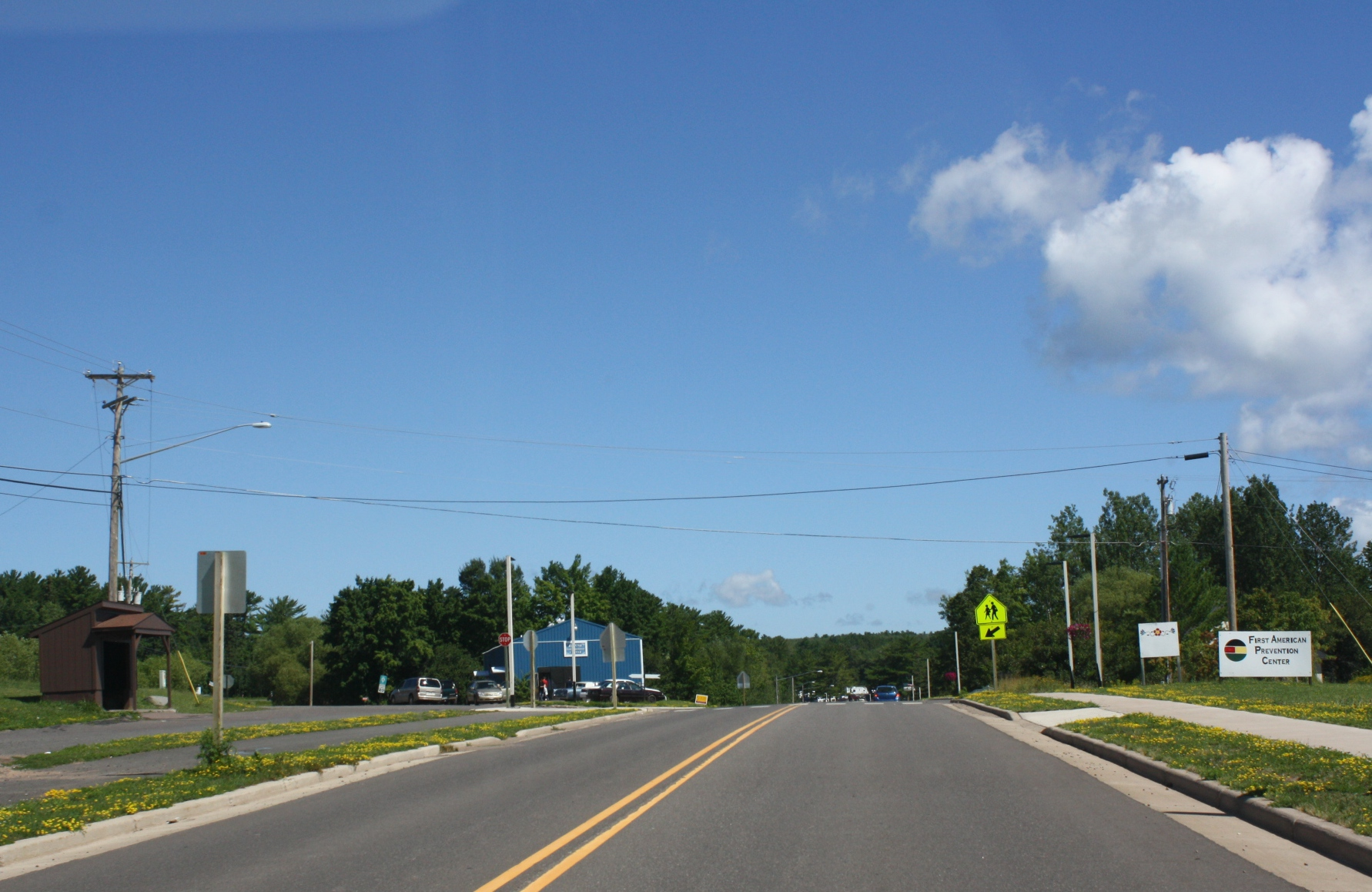 Downtown Red Cliff, Wisconsin on Wisconsin Highway 13.